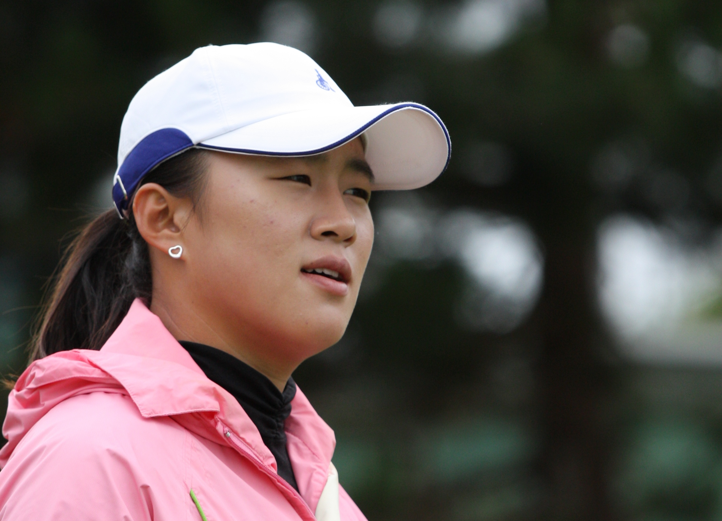 LYTHAM ST ANNES, UNITED KINGDOM - JULY 29: Amy Yang of South Korea on the 12th tee during third practice round before 2009 Ricoh Women's British Open held at Royal Lytham & St Annes on July 29, 2009 in Lytham St Annes, England. (Photo by Wojciech Migda)